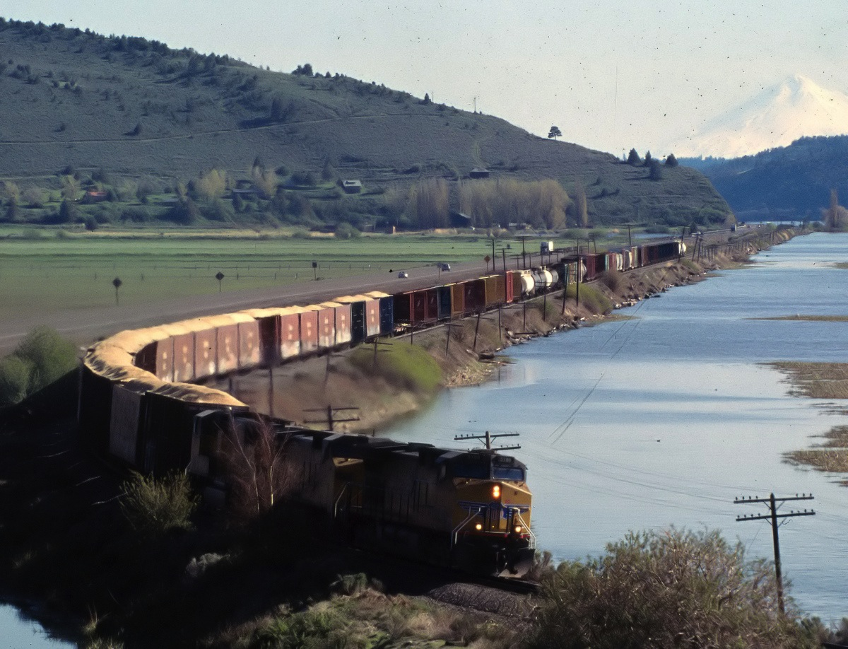 Along the shore of Upper Klamath Lake, near Algoma, in southern Oregon. Freight train running along the east shore of Upper Klamath Lake, with the unincorporated community of Algoma and Mount Shasta in the background. May 2003. Scan from 35mm slide.